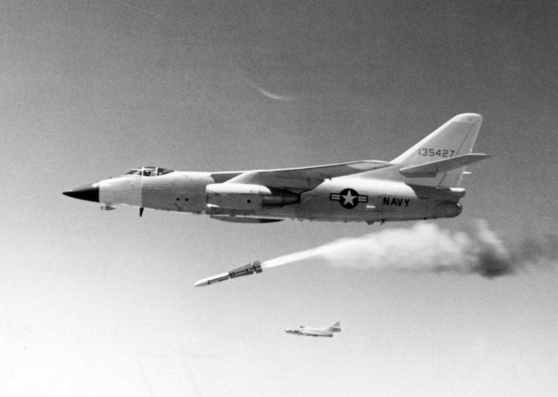 An XAIM-54A Phoenix air-to-air missile is launched from the Douglas NA-3A Skywarrior (BuNo 135427), which was used as a testbed, on 8 September 1966. A Grumman F-9J Cougar is visible in the background. Note that the NA-3A has been fitted with an AWG-9 radar.